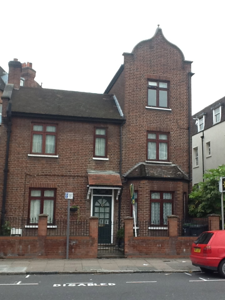 The (unfinished) Stroud Green Assembly Rooms (c.1895) seen 5 June 2012 from Stapleton Hall Road: History of Stroud Green